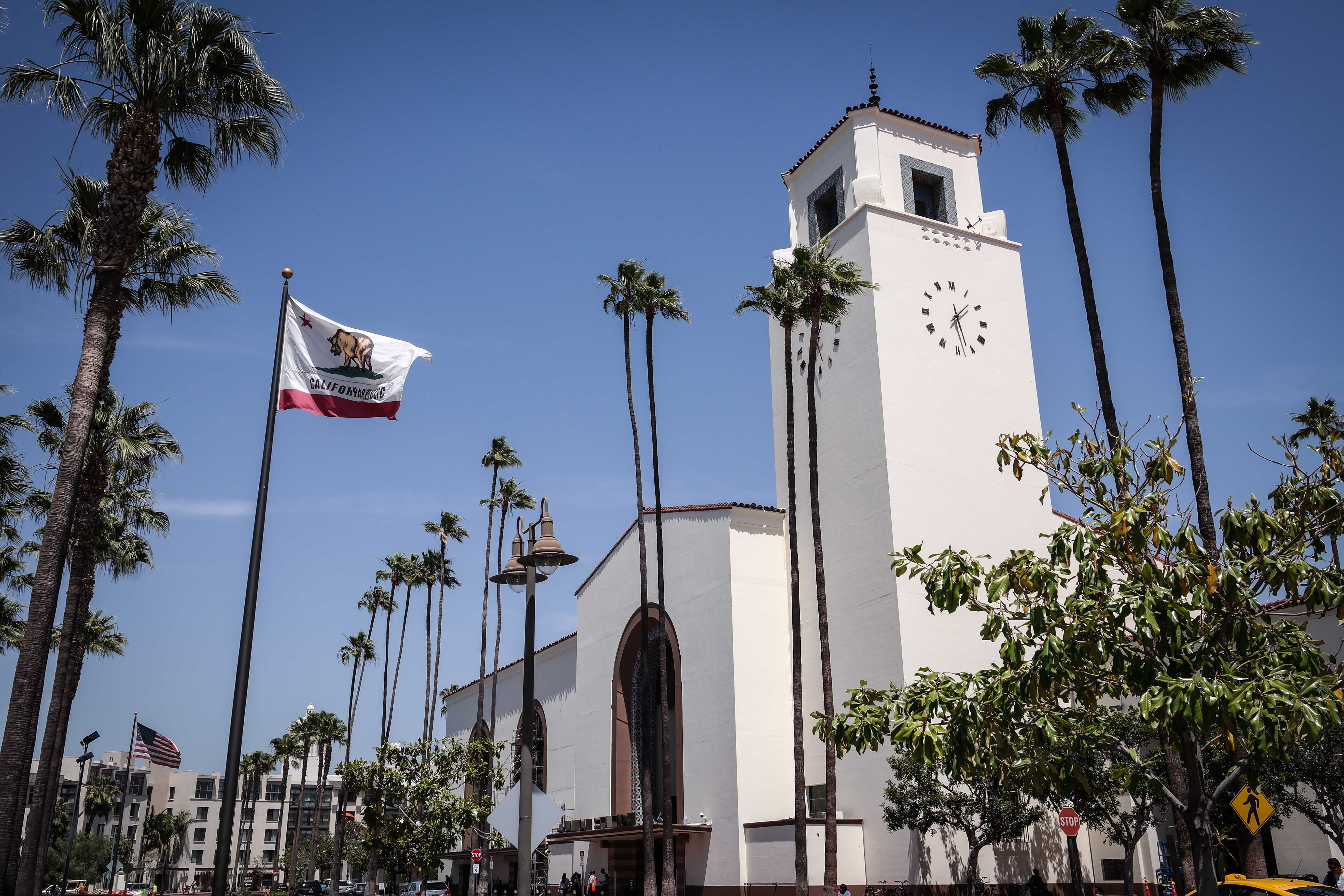 Details of Los Angeles Union Station